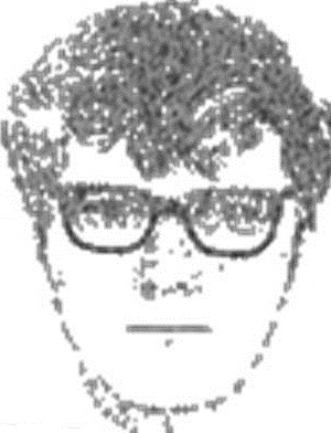 Police composite of a person of interest involved in the death of an unidentified girl who was murdered in 1979.